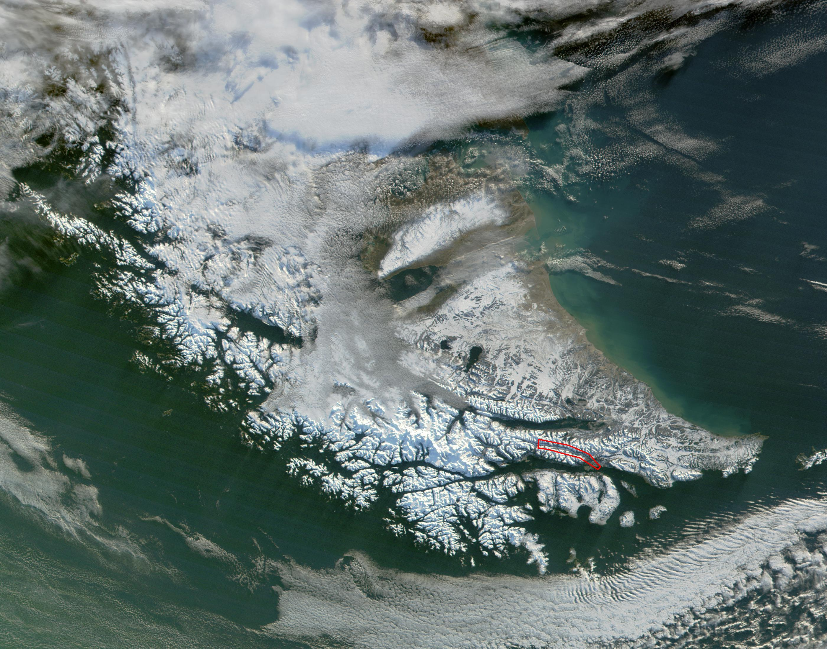 Satellite view of Tierra del Fuego. Valle de Tierra Mayor marked into a red line